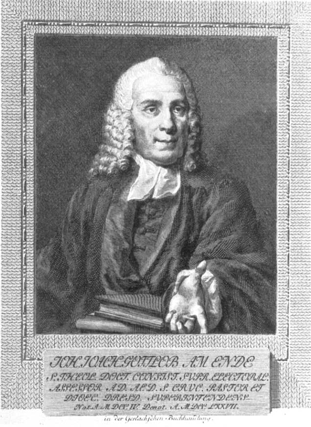 Johann Gottlob am Ende (1704-1777) german protestant Theologian